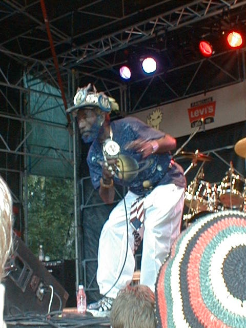 Lee "Scratch" Perry live